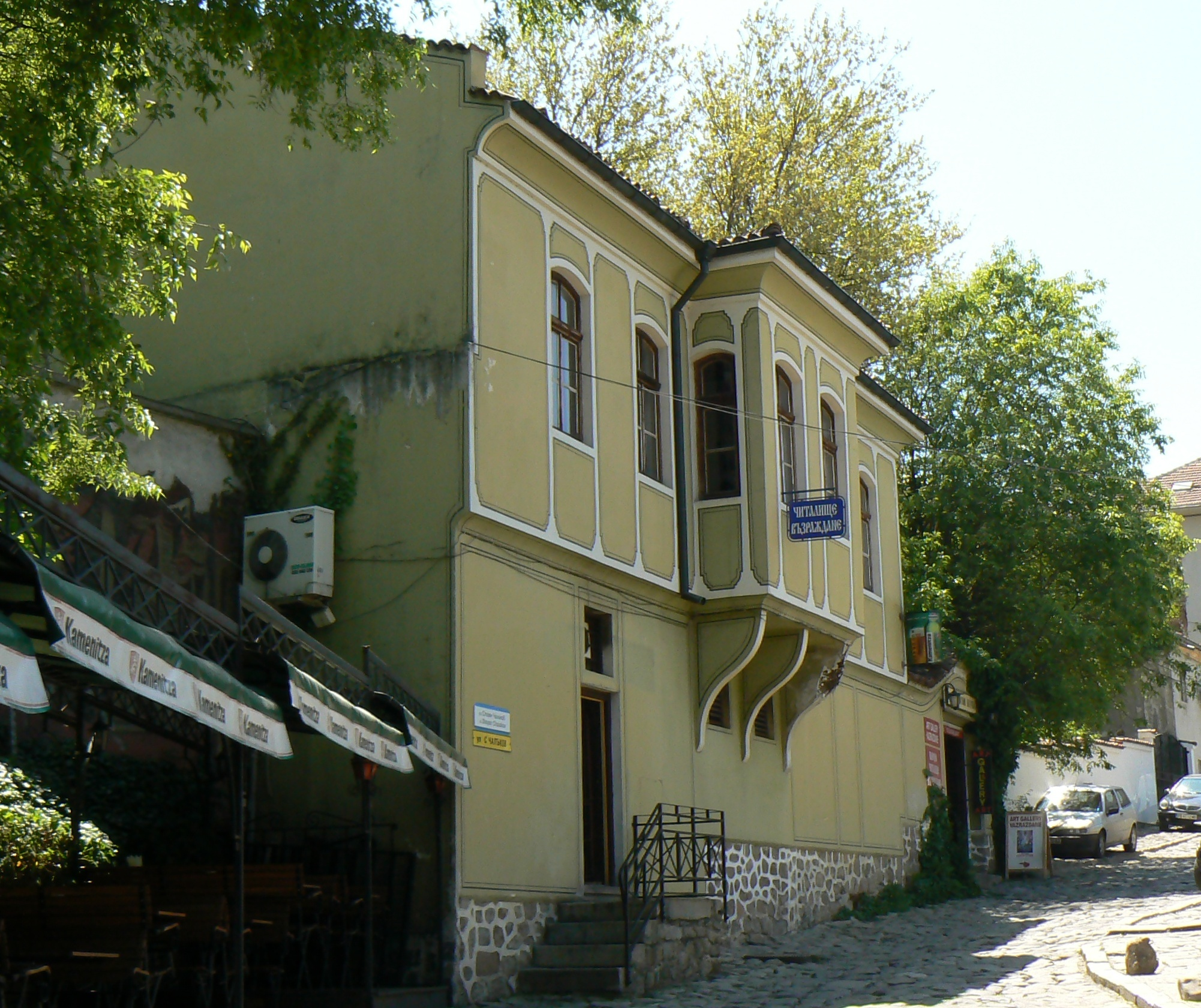 Library and cultural house "Vazrazhdane" in Plovdiv, Bulgaria